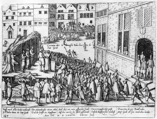 Execution of Sodomite monks in Ghent, June 28, 1578.